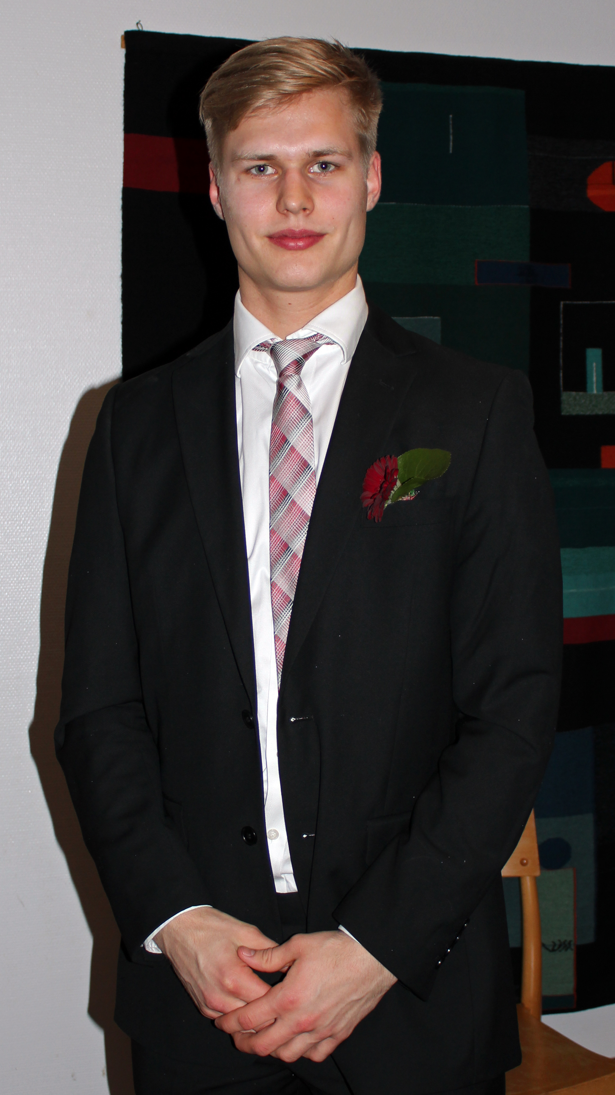 Swedish ice hockey player Martin Janolhs. Picture taken with permission on a private party.